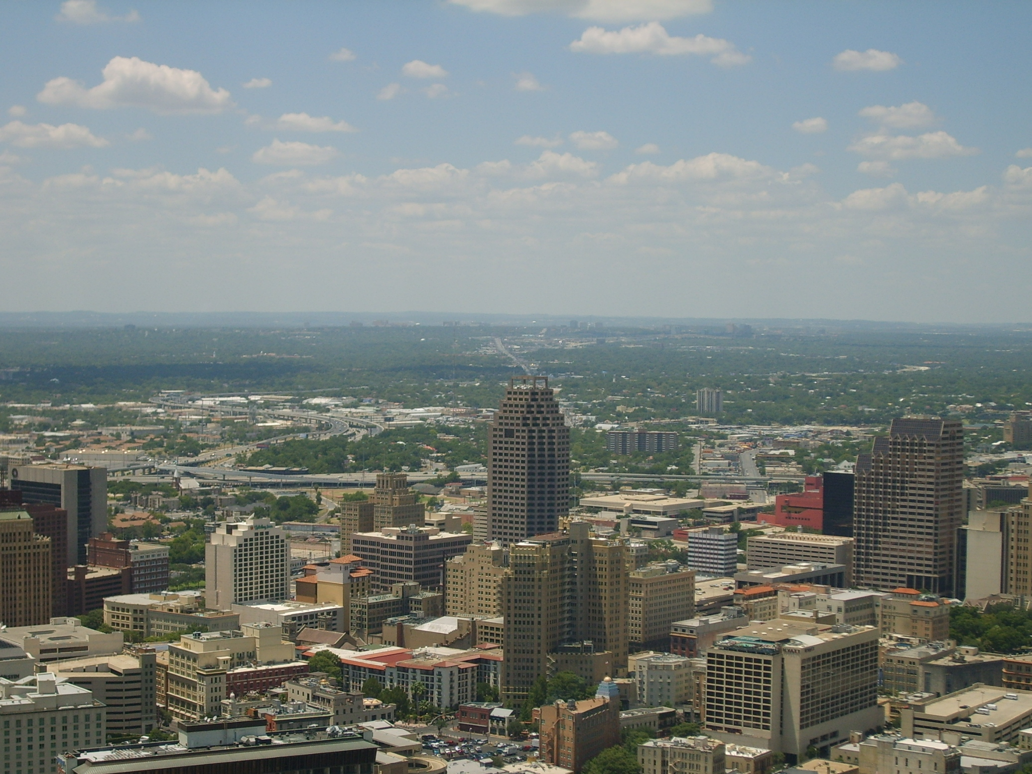 San Antonio's Downtown